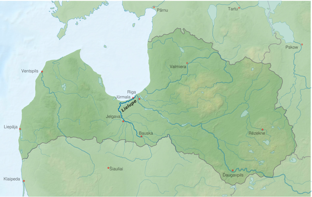 Map of river Lielupe in Latvia based on relief-location maps by users: NNW, Виктор В, Alexrk2, Chumwa, Karlis